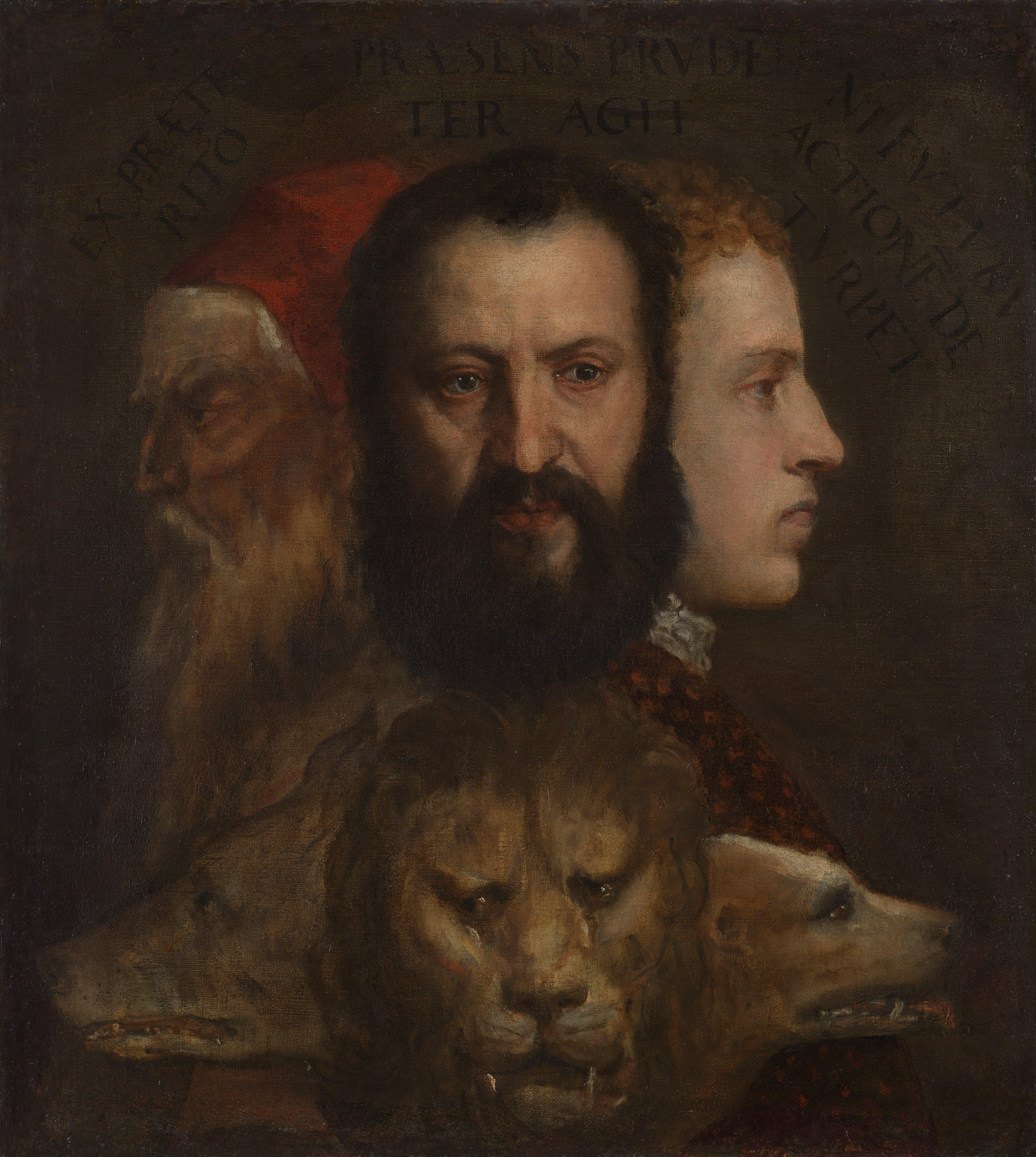 The three heads allude to the three ages of man: youth, maturity and old age; left: Titian at old age; middle: his son Orazio, who died of the plague the same year as Titian; right: his cousin and heir: Marco Vecellio, *1545; the triple-headed beast - Wolf, lion and dog - is a Symbol of prudence.